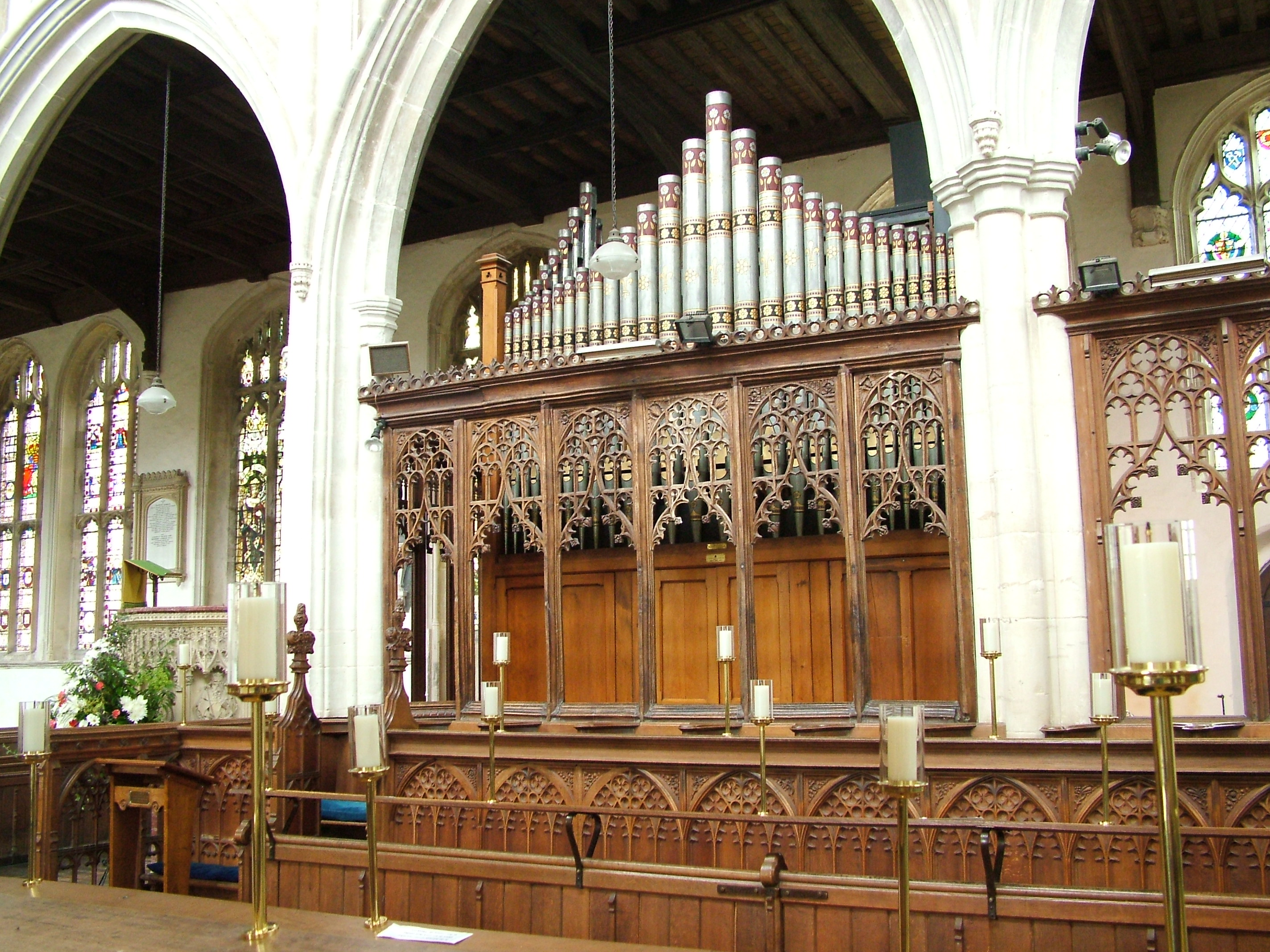 Melford (UK), Holy Trinity Church